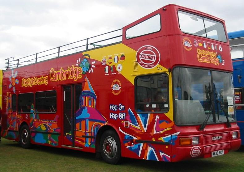 DAF DB250 open top bus (cropped from original source image)